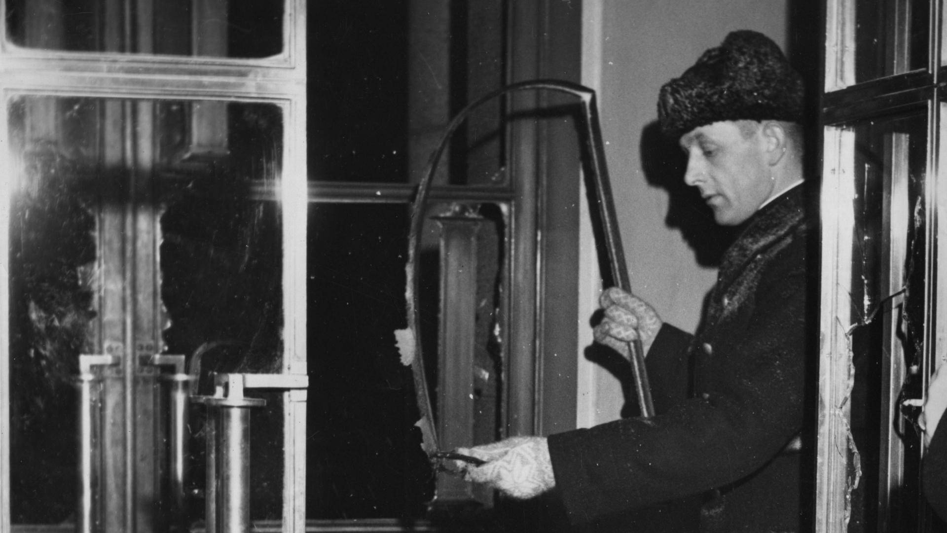 Photograph of the main doors at Parliament House, Helsinki, after a bomb was thrown into the building during the night by a schizophrenic man.